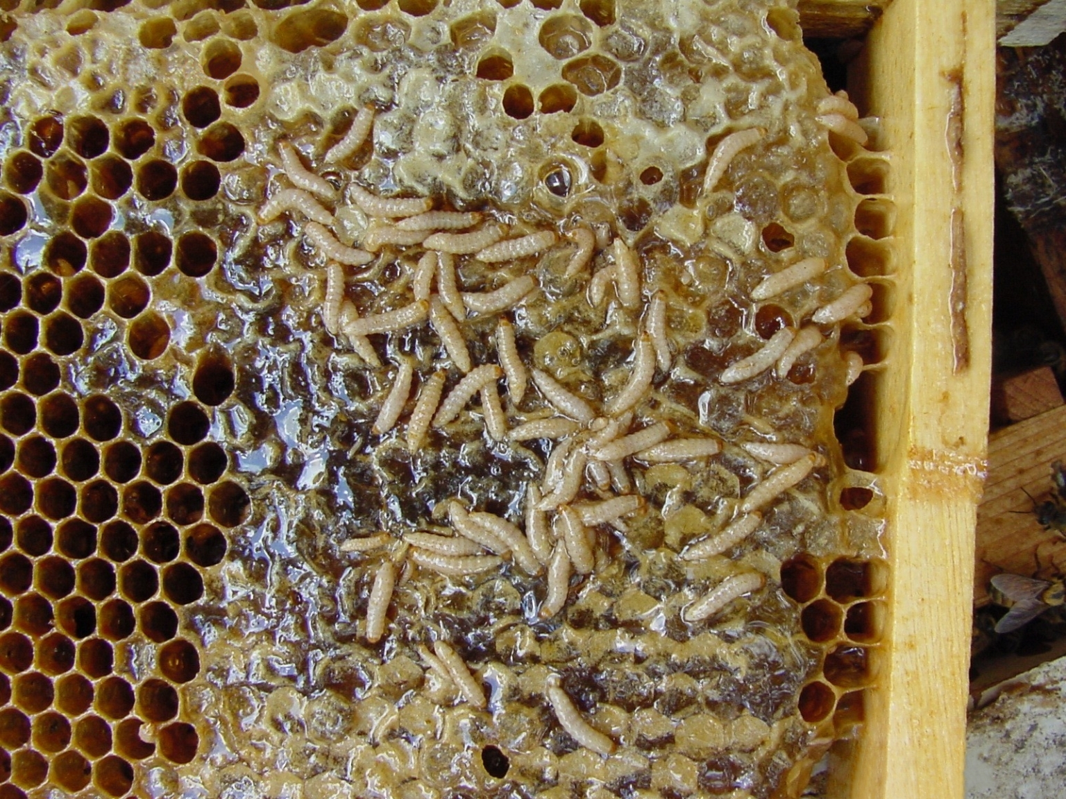 Aethina tumida Host: honey bee Apis mellifera Linnaeus Common Name: small hive beetle Photographer: James D. Ellis, University of Florida, United States Descriptor: Larva(e) Description: Small hive beetle larvae on a comb of honey; 1 September, 2004 Image taken in: Moultrie, Georgia, United States